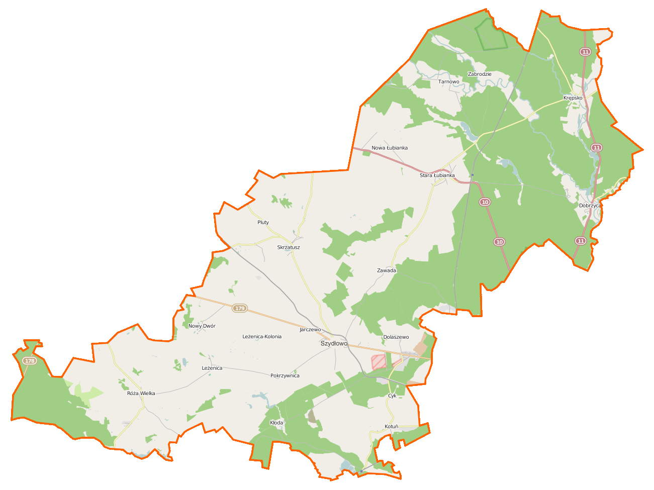 Map of Gmina Szydłowo, Poland This map of Szydłowo (gmina w województwie wielkopolskim) was created from OpenStreetMap project data, collected by the community. This map may be incomplete, and may contain errors. Don't rely solely on it for navigation. Border coordinates53.302616.3827←↕→16.829353.1020